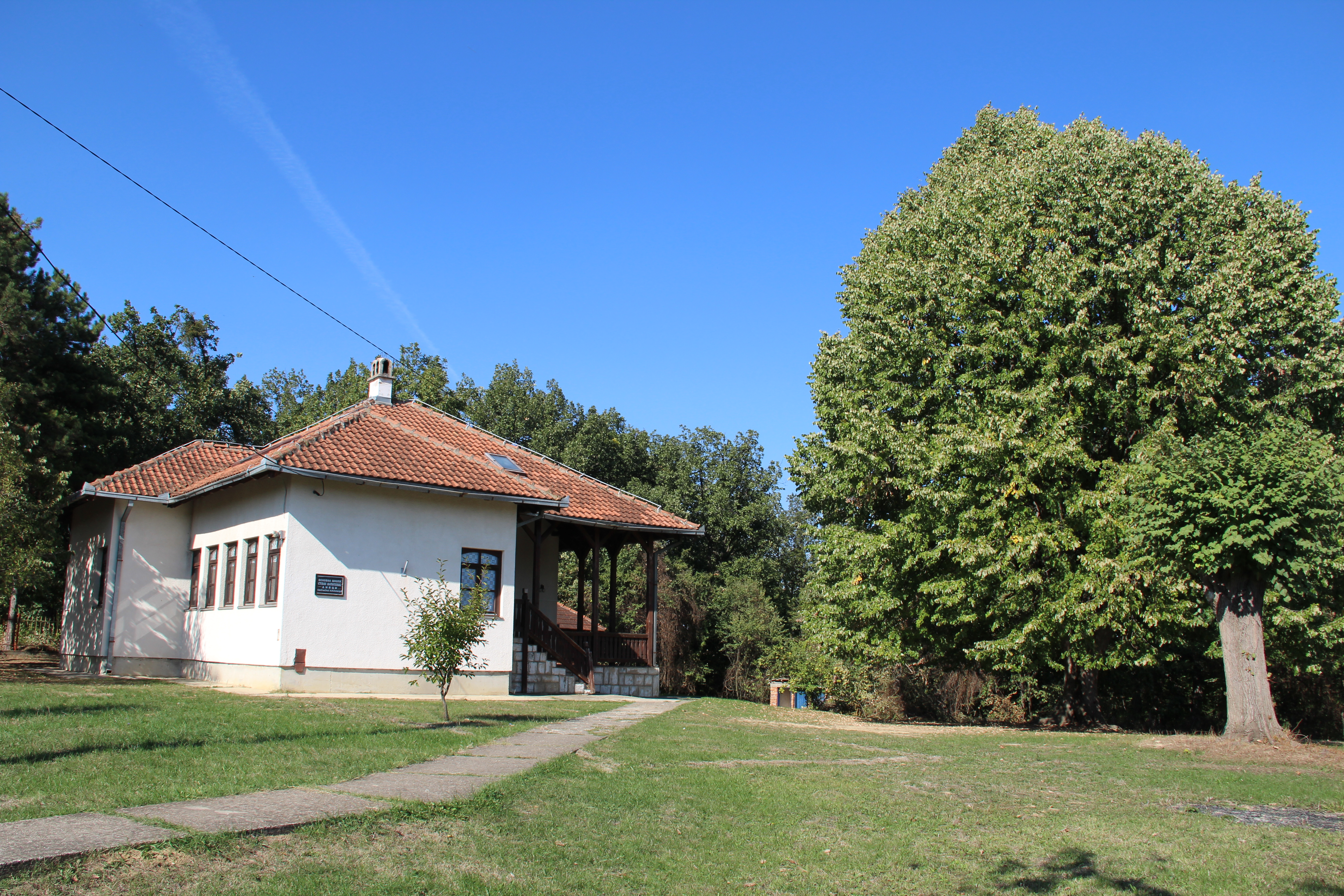 Klanica village - Municipality of Valjevo - Western Serbia - School 2